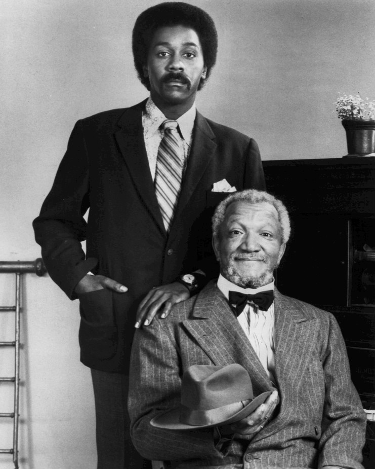 Photo of Redd Foxx as Fred Sanford and Demond Wilson as his son, Lamont. The actors portrayed these characters on the television program Sandford and Son.